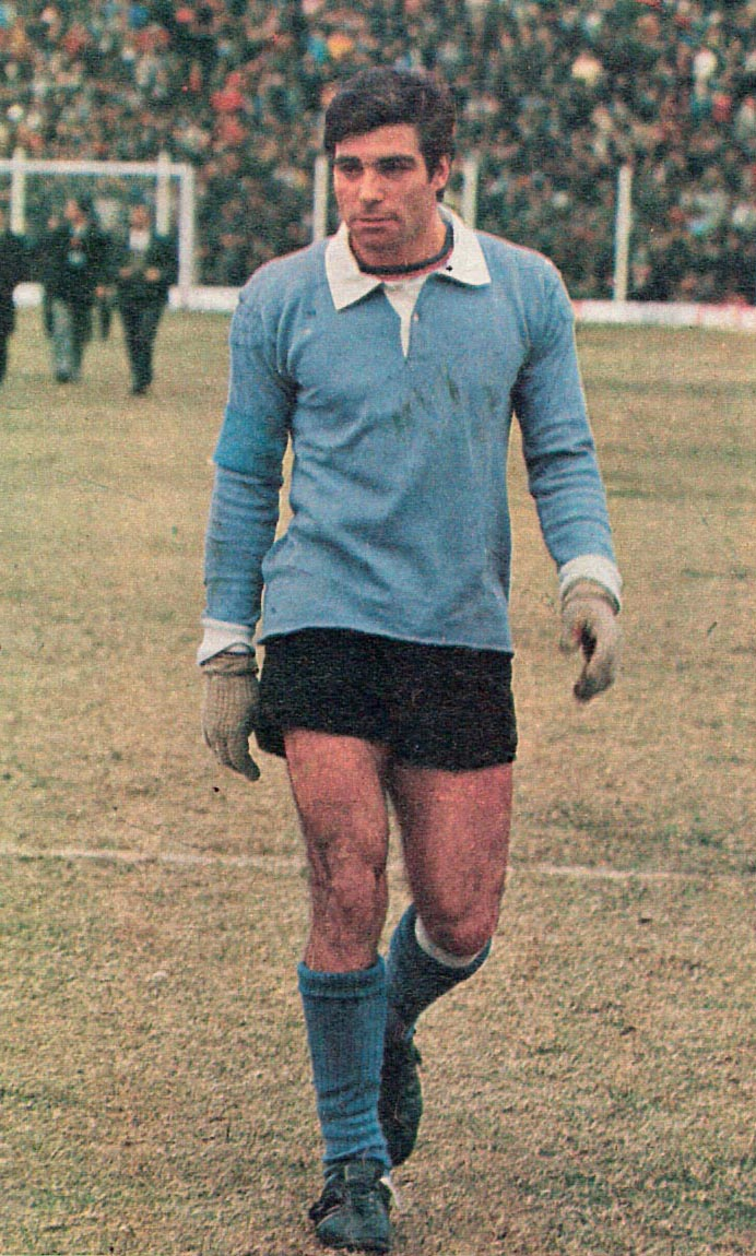 Buttice in 1968 while playing for San Lorenzo de Almagro of Argentina.